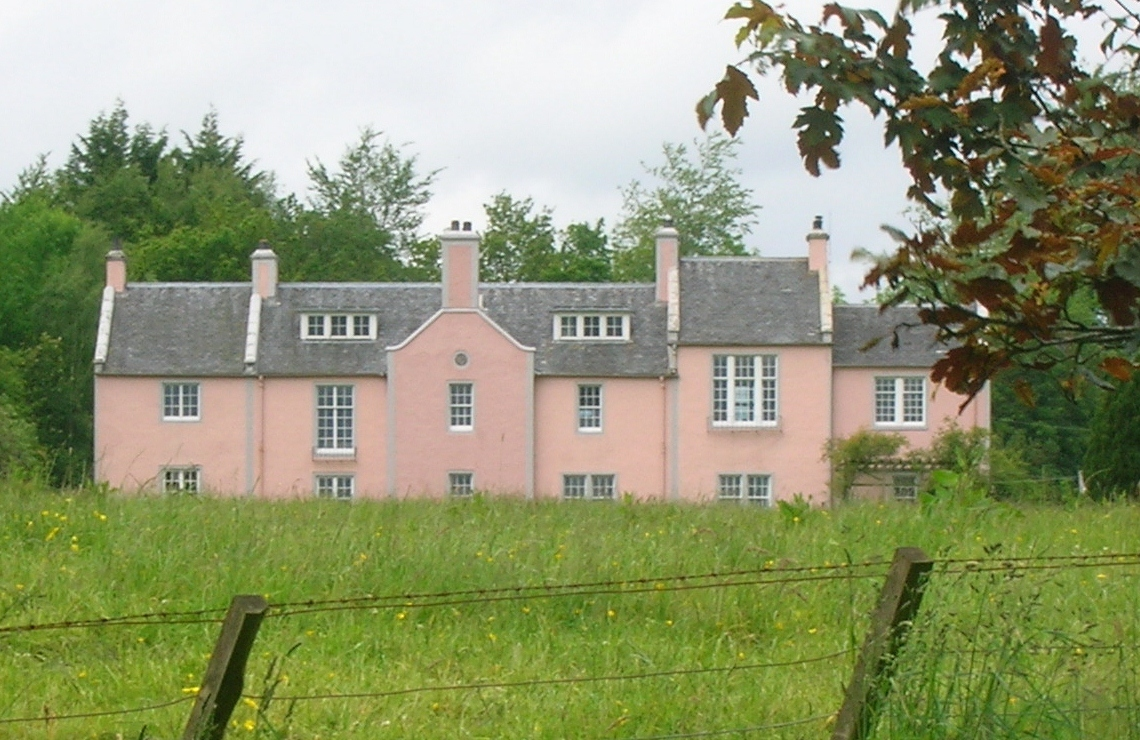 Kingencleugh House from the castle, Mauchline, East Ayrshire, Scotland